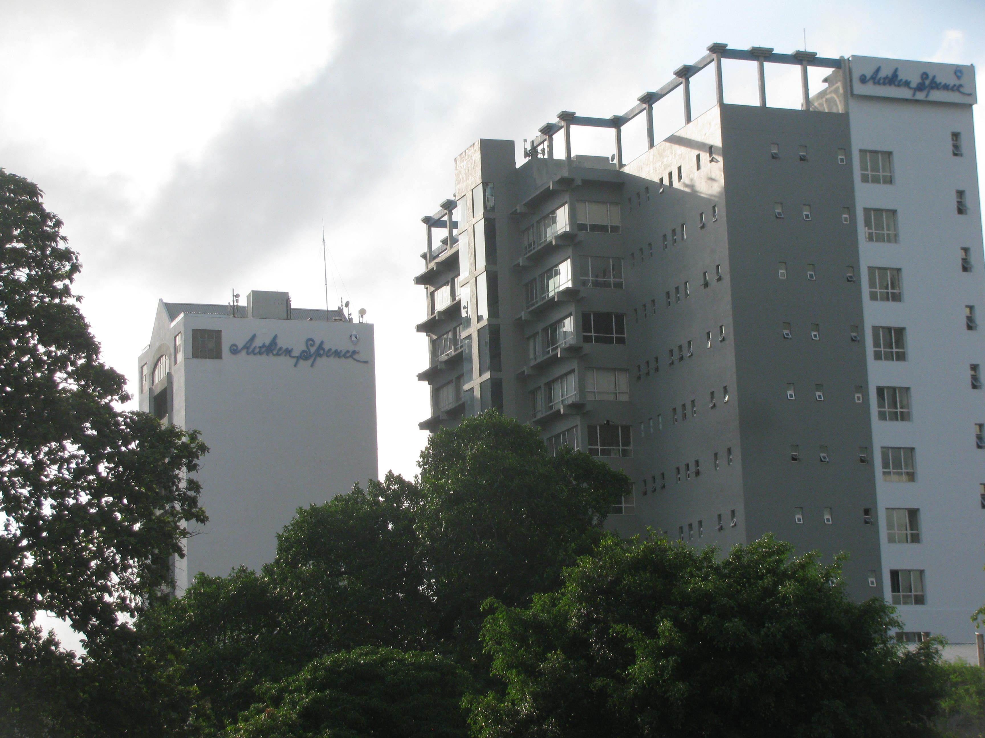 Aitken Spence Towers, Corporate Head Office of Aitken Spence Group, in Colombo. 02. (Close to Hyde Park Corner)